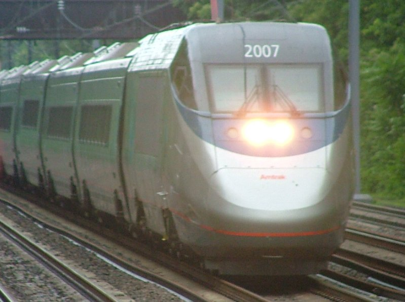 Northbound Acela Express headed by power unit 2007. Trainset is just south of Princeton Junction station.